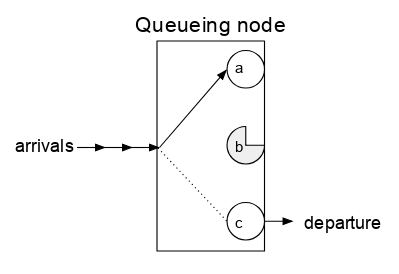 a simple diagram showing the behaviour of a queueing node, with arrivals, servers in various states, and a departure